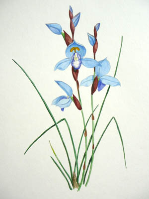 Disa graminifolia watercolor